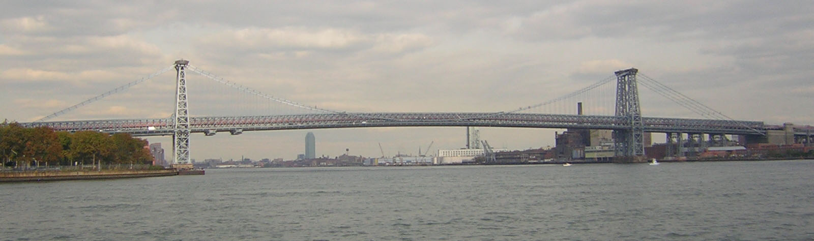 Williamsburg Bridge from Circle Line boat in Wallabout Bay on a mostly cloudy early afternoon. Full length of the bridge and part of the approaches.